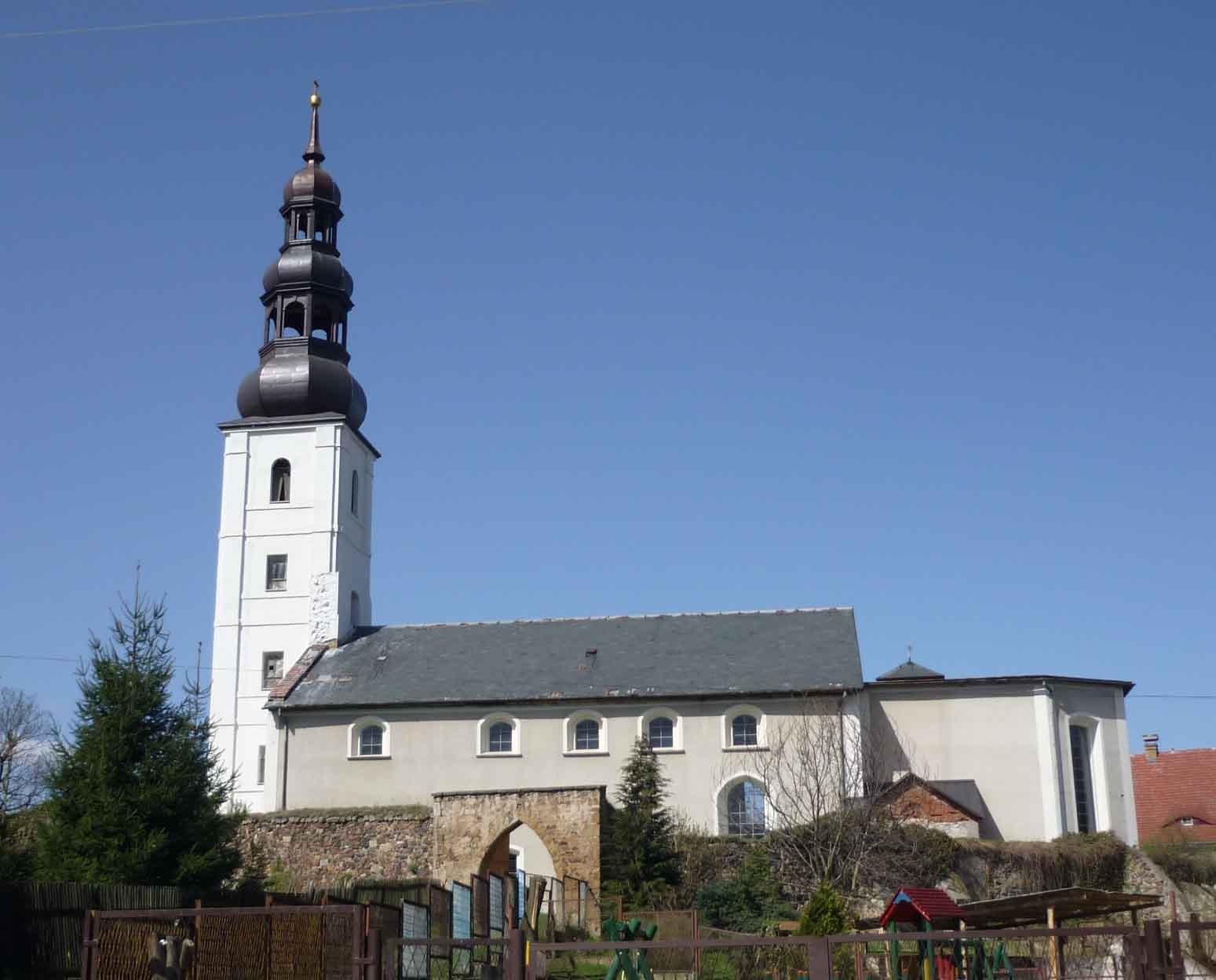 Holy Trinity church in Proboszczów, Poland